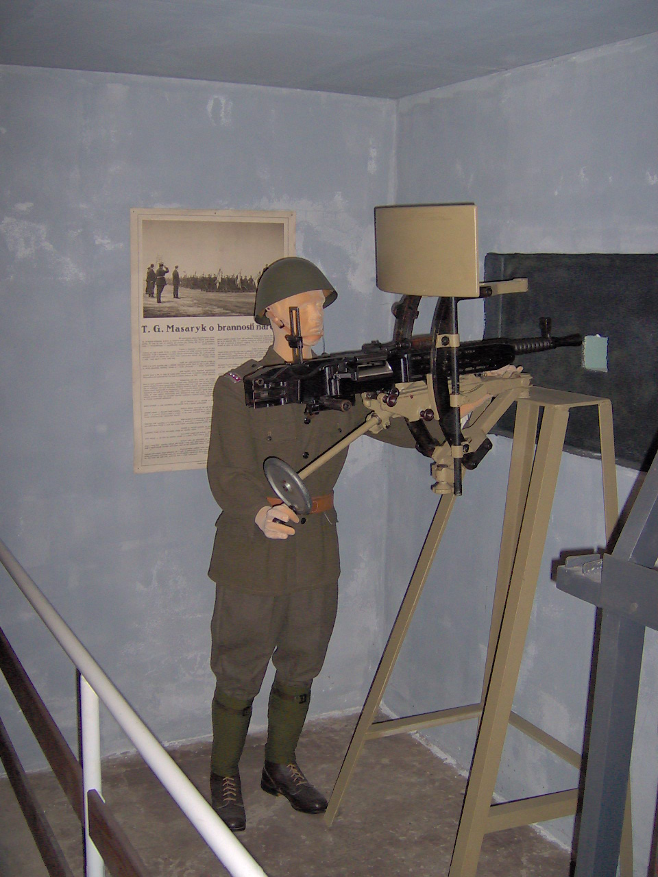 Frontier fortification (exhibit of military museum in Lešany)